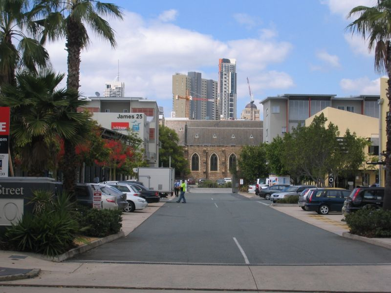 Car park off James Street, Fortitude Valley with St. Patrick's Church, Brisbane in the background